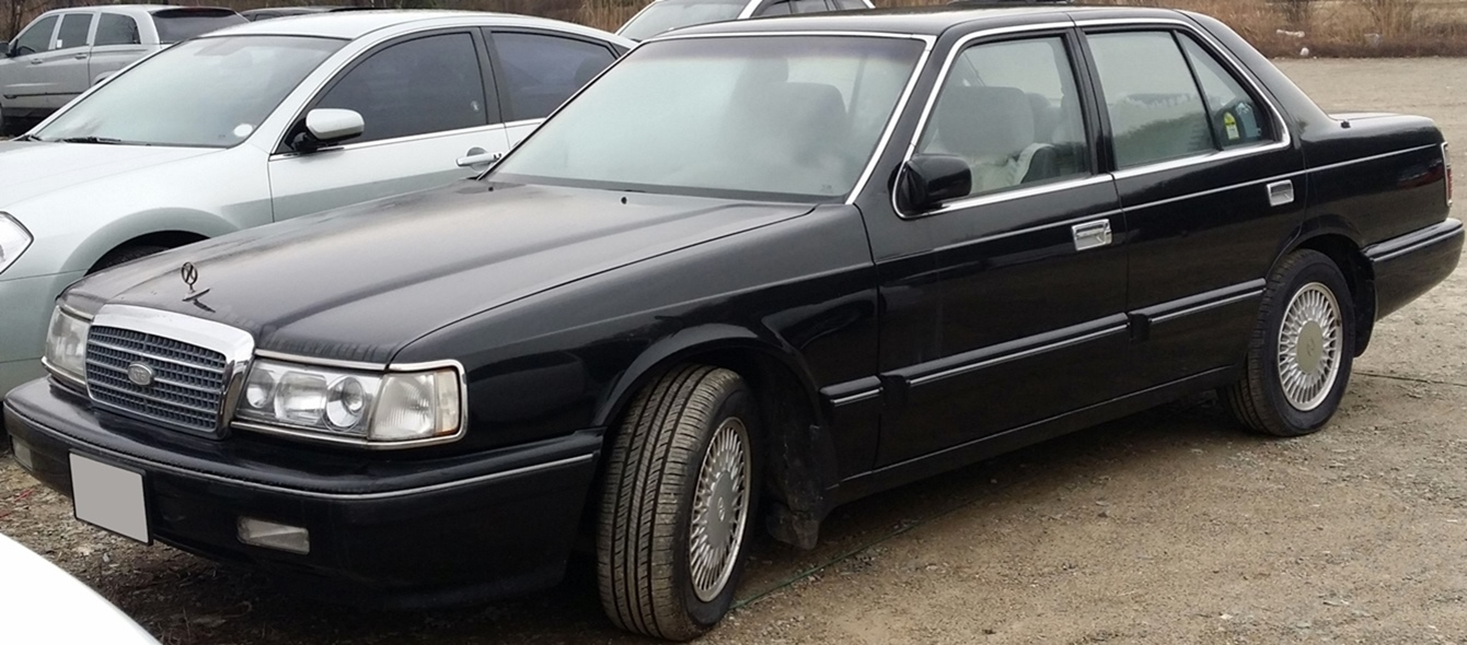 Kia Potentia